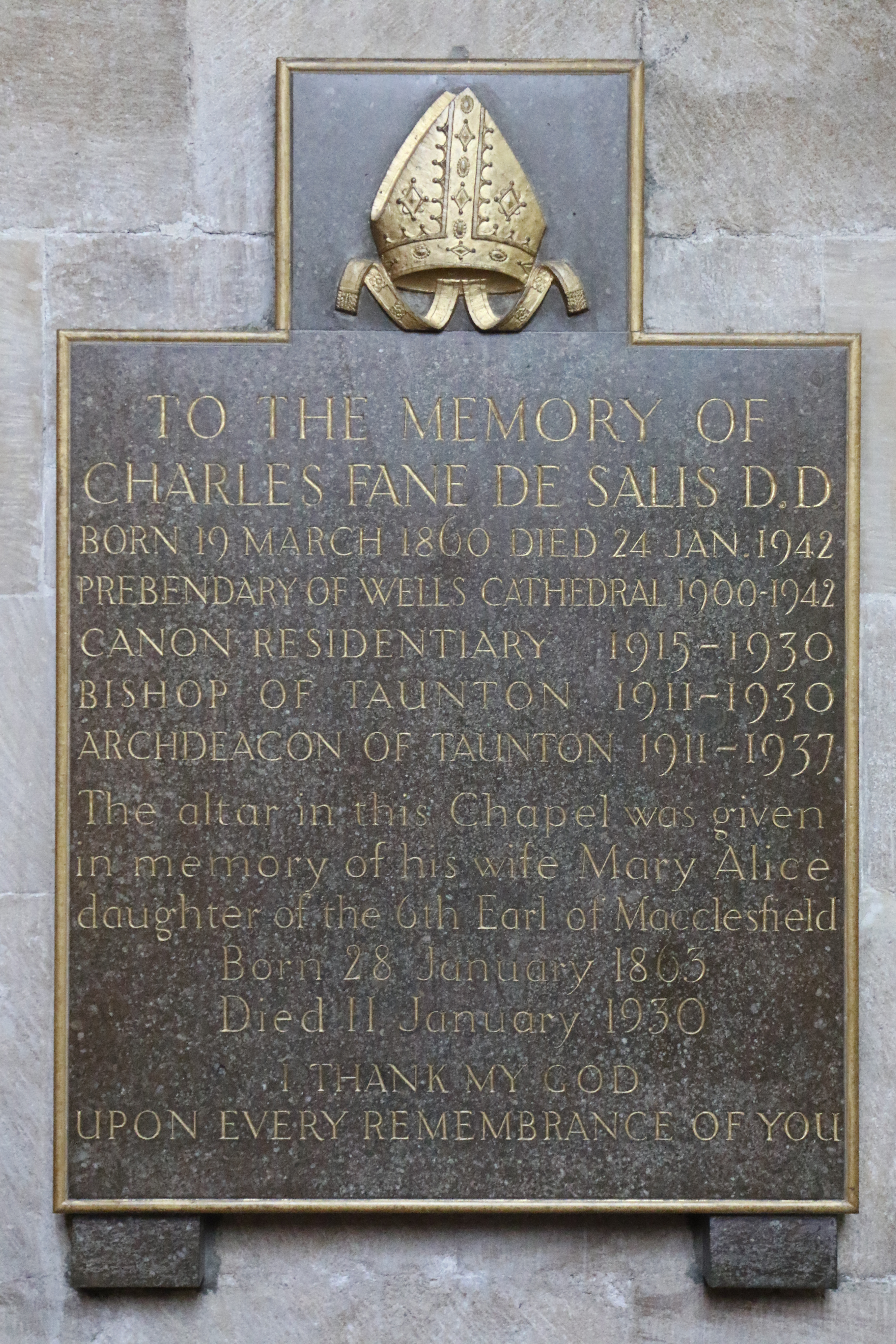 Charles Fane de Salis. Born 19 March 1860 Died 24 Jan 1942 Prebendary of Wells Cathedral 1900 - 1942 Canon Residentiary 1915 - 1930 Bishop of Taunton 1911 - 1930 Archdeacon of Taunton 1911 - 1937